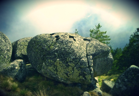 Carev vruh megalith Rila BG